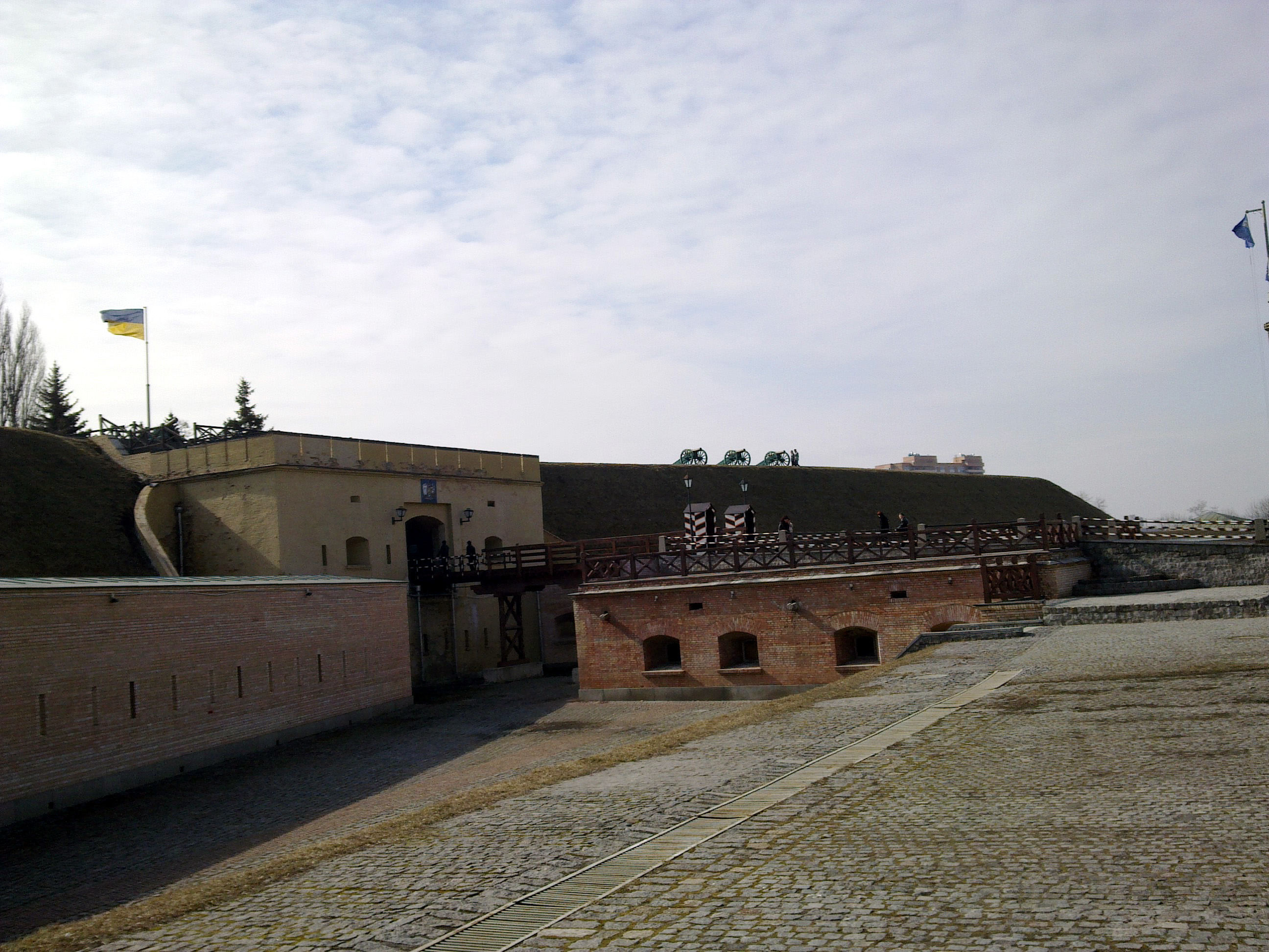 Kiev Fortress